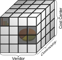 Spend Cube Image